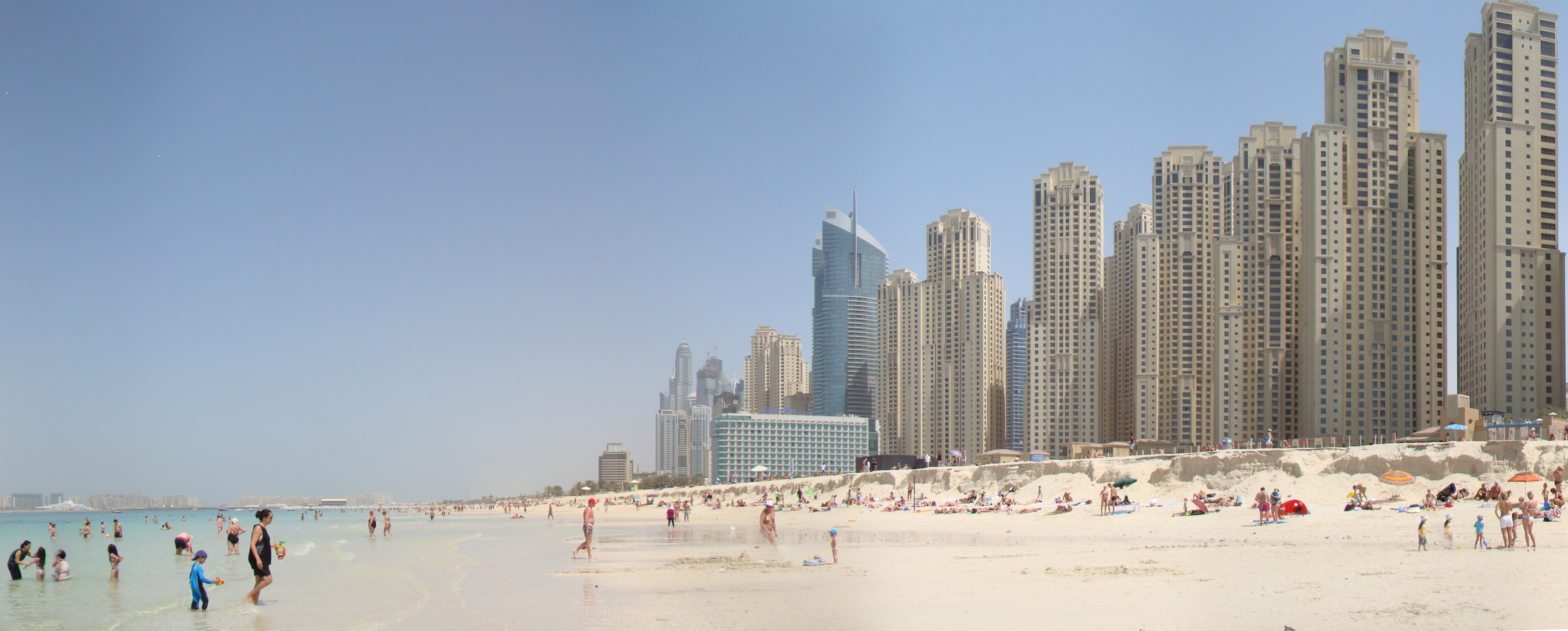 Dubai Marina Beach Panorama